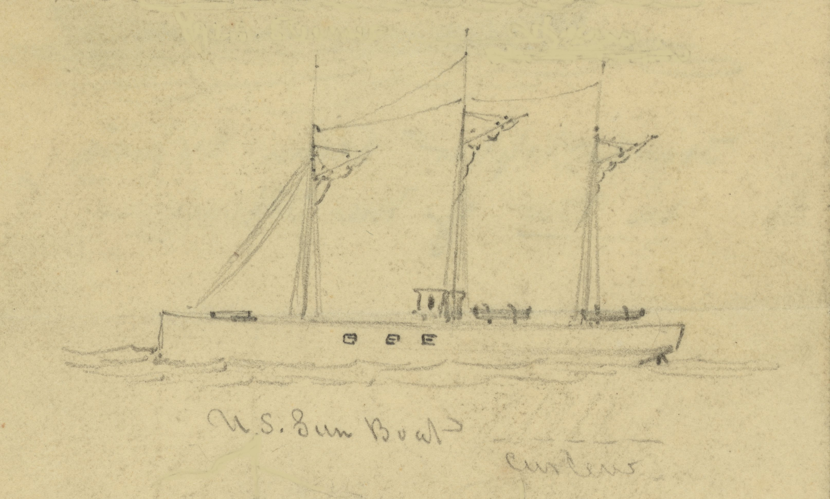 The United States gunboat Curlew. Built as a New England freight steamer in 1856, Curlew was used as gunboat by the U.S. Navy for short periods in both 1861 and 1863 but the vessel is not listed in the Navy's Dictionary of American Naval Fighting Ships and it is unclear from the record whether she was ever formally commissioned as a Navy vessel.